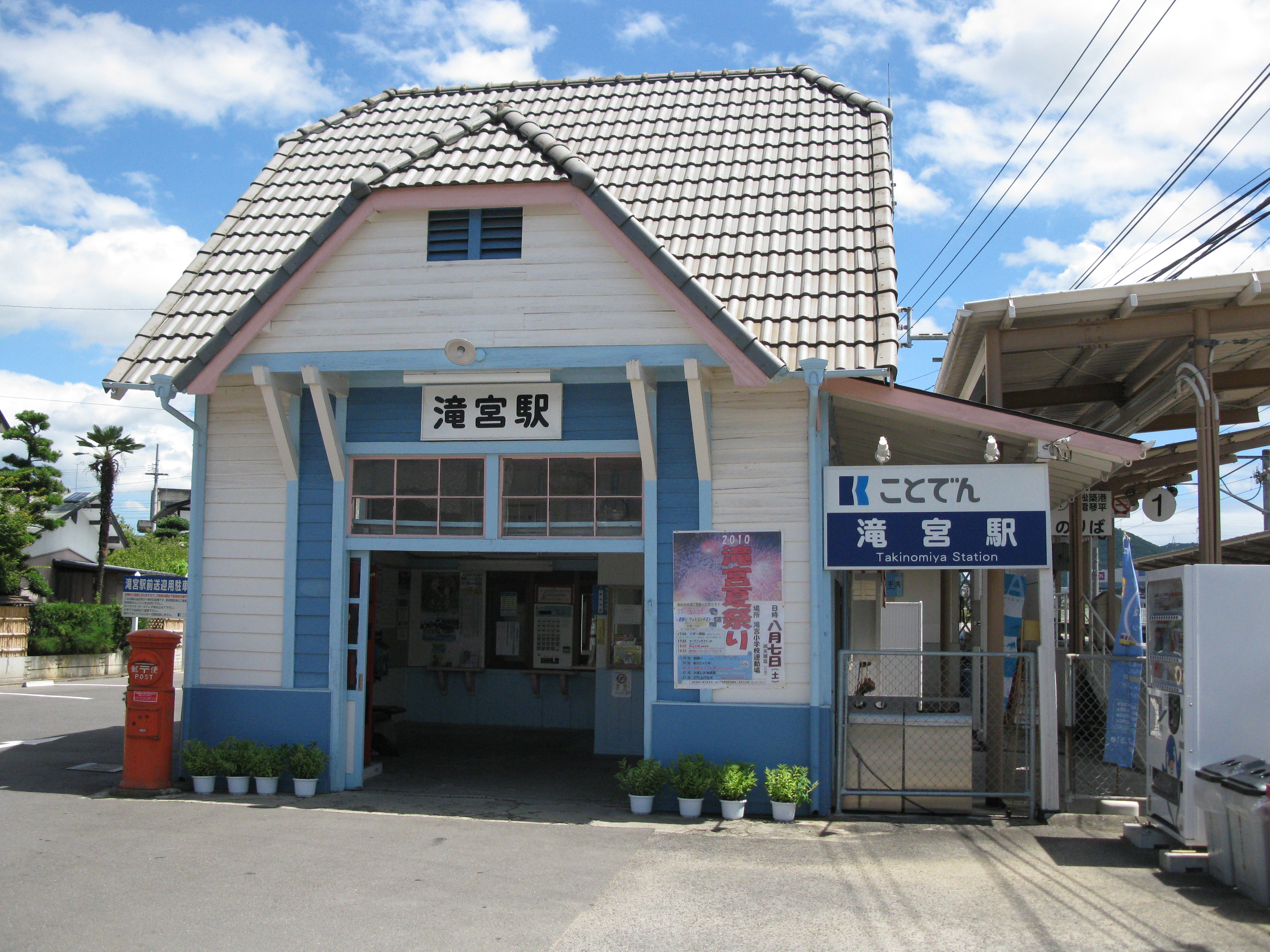 Takinomiya Station building (Takamatsu-Kotohira Electric Railroad(Kotoden) Kotohira Line)